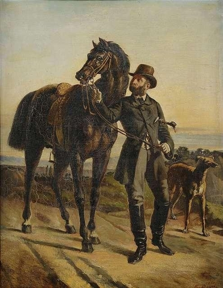 Portrait of a gentleman rider with his black horse and a sighthound in front of a landscape